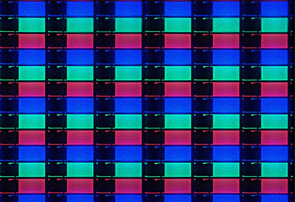 Simulation of a mono-LCD projector's panel with horizontal stripes from the original Dell_axim_LCD_under_microscope with actual vertical stripes